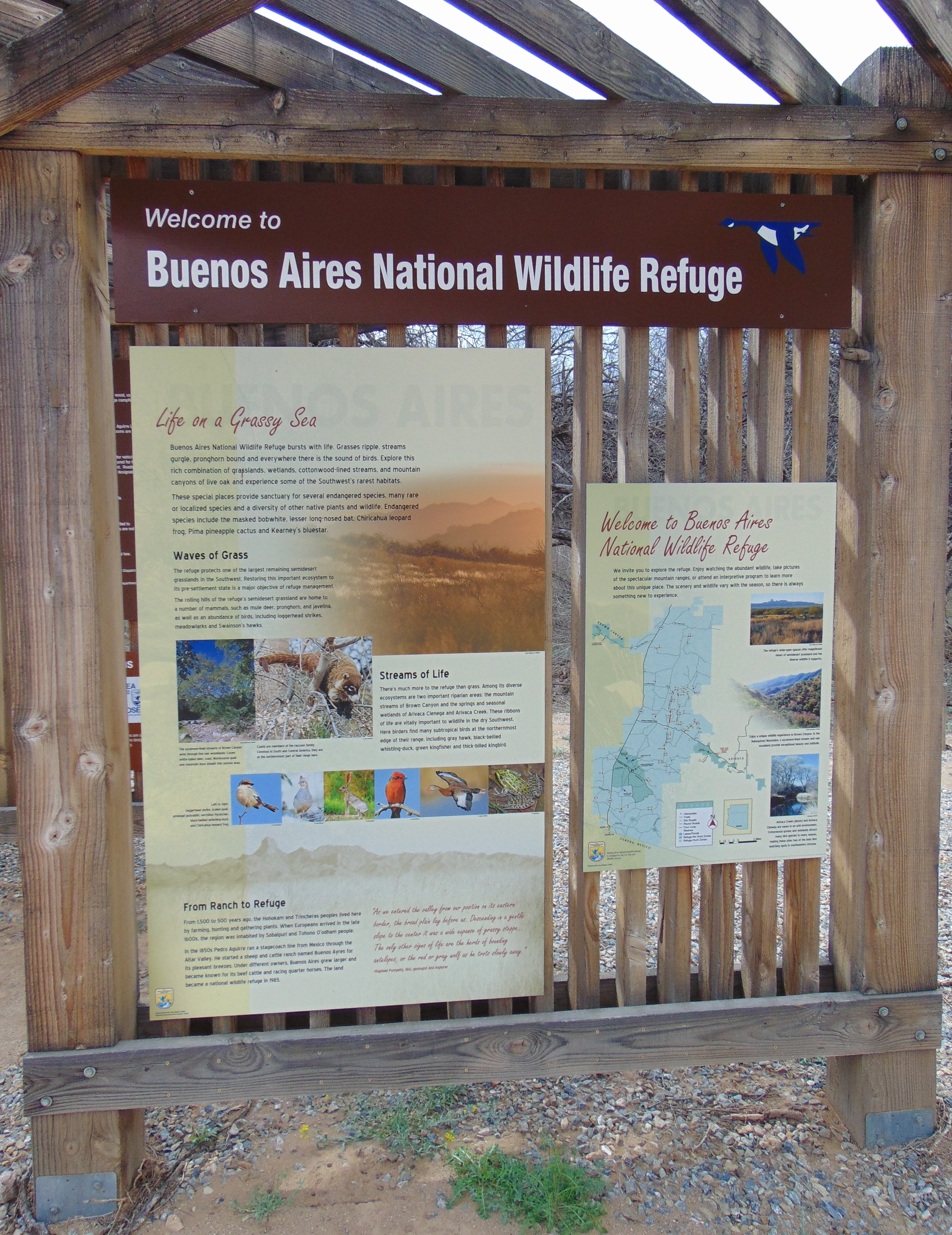 Welcome sign at the Arivaca Creek traihead in the Buenos Aires National Wildlife Refuge.